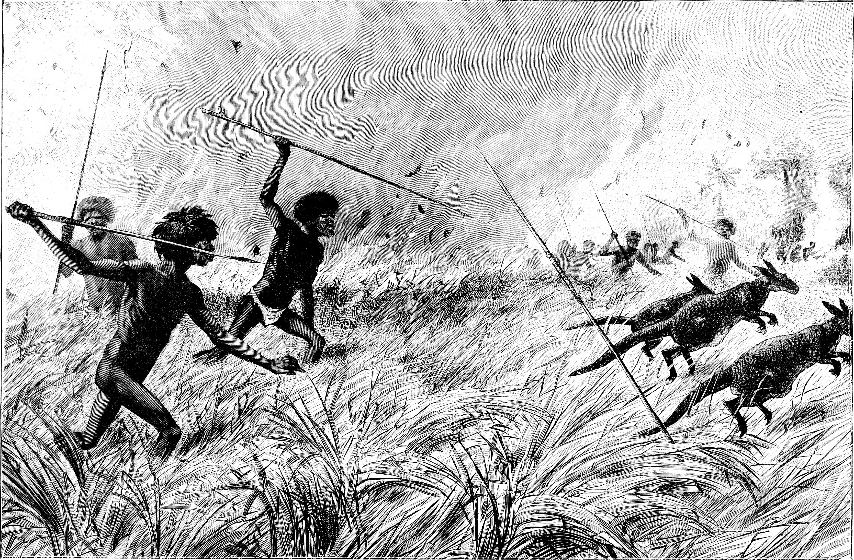 Title: Ridpath's Universal history : an account of the origin, primitive condition and ethnic development of the great races of mankind, and of the principal events in the evolution and progress of the civilized life among men and nations, from recent and authentic sources with a preliminary inquiry on the time, place and manner of the beginning Year: 1897 (1890s) Authors: Ridpath, John Clark, 1840-1900 Subjects: World history Publisher: Cincinnati : Jones Text Appearing Before Image: BOOMERANG. Text Appearing After Image: 708 GREAT RACES OF MANKIND. bag, as a rule, holds the larger part ofthe treasure of the Australian family.Of weapons, the principal is the spear.It is made of a shaft of wood, or cane,about ten feet in length. It tapers to apoint, and is carefully barbed. Themanner of hurling it is peculiar. Apiece of wood is so cut as to contain asocket in the end, and into this the buttof the spear is inserted. The woodenpiece, called the wummera, is graspedin the hand of the spearman, and thedart is hurled forward from the socket.It is reported that the skill of the Aus-tralians in throwing the spear is verygreat. Captain Cook has recorded that,at the distance of fifty yards, the nativesare more sure of their mark than civil-ized people would be in sending a riflebullet! Here we reach also that most anoma-lous of aboriginal inventions, the boom-erang. This implement is one of thestrange things of the island. It con-sists, as all the world knows, of an armof wood bent like an elbow and fash-ioned in